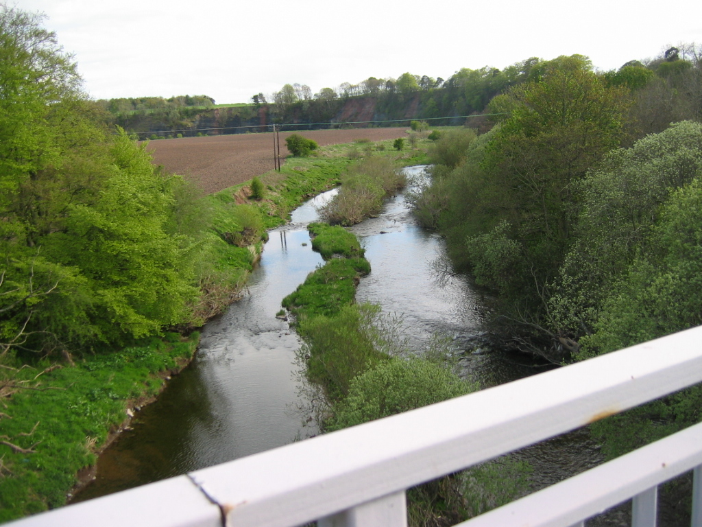 Chinrside Bridge over the river Whiteadder, Scottish Borders, Scotland